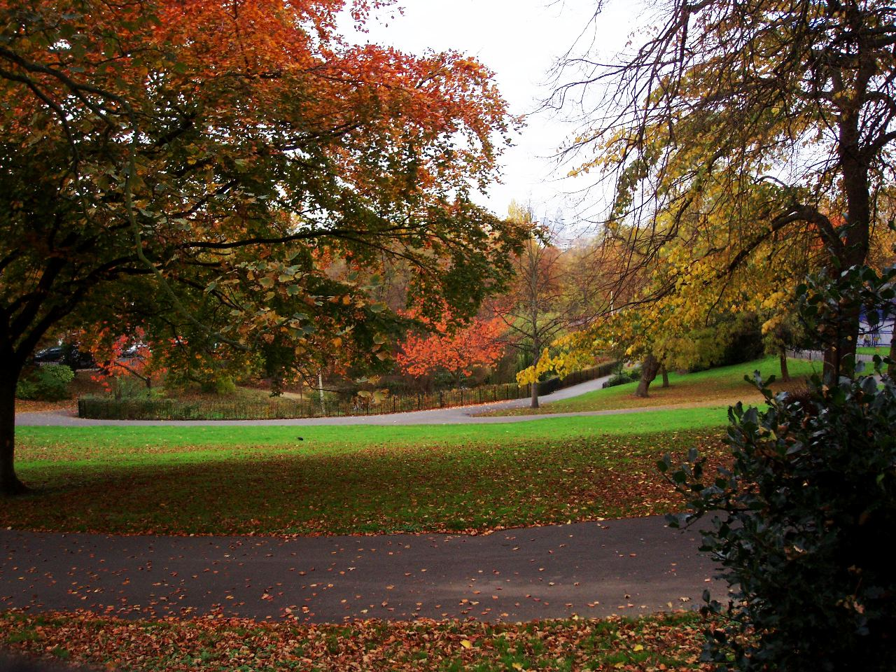 The lower part of this park, high above New Cross. Photo taken November 2007. Owner: London Borough of Lewisham.